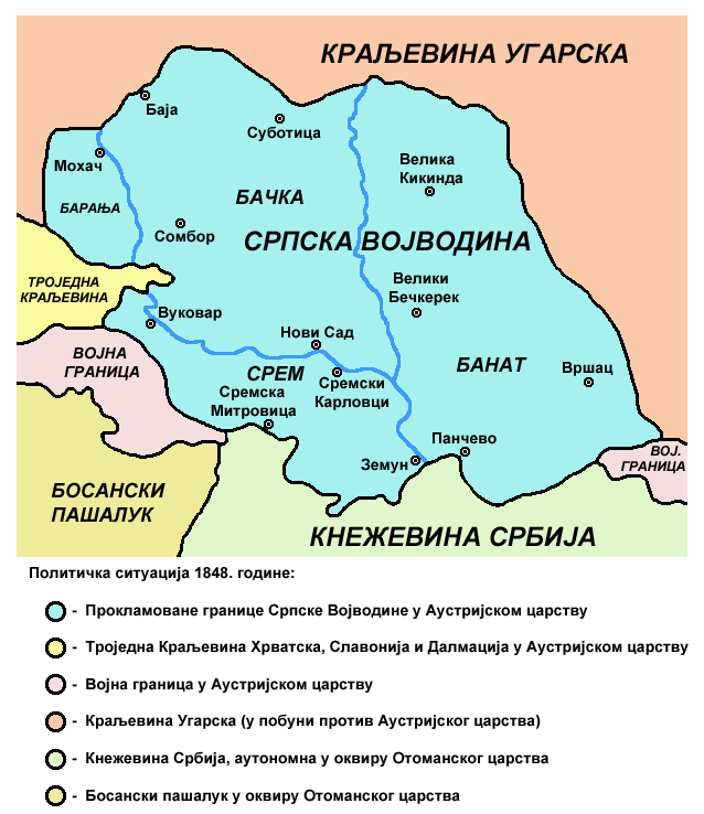 historic map of Serbian Vojvodina from 1848 - Serbian language version